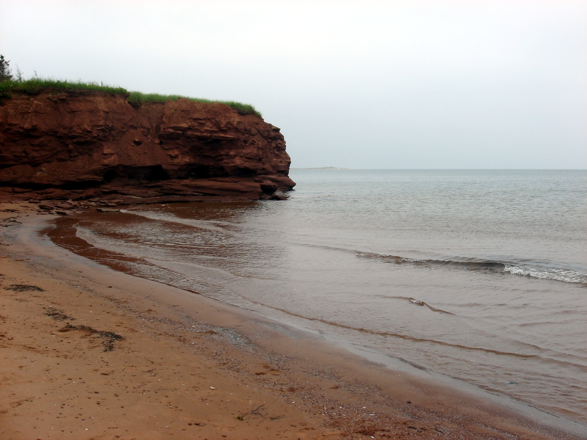 Red sandstone at Cabbot Beach Provincial Park, Prince Edward Island, Canada